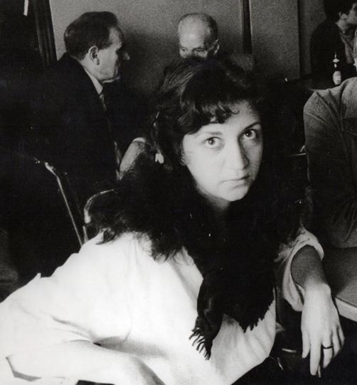 Marina Tavares Dias famous Portuguese writer and Historian